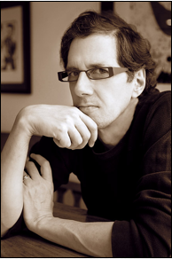 Photograph of Will Santillo